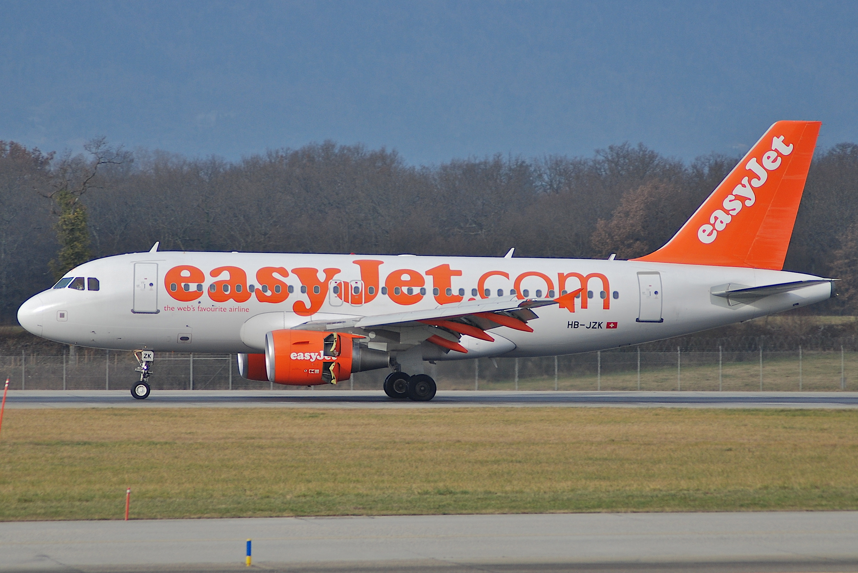 EasyJet Switzerland Airbus A319-111; HB-JZK@GVA;30.12.2006/445ng